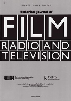 Cover of Historical Journal of Film, Radio and Television, 2012, vol. 32, no. 2.